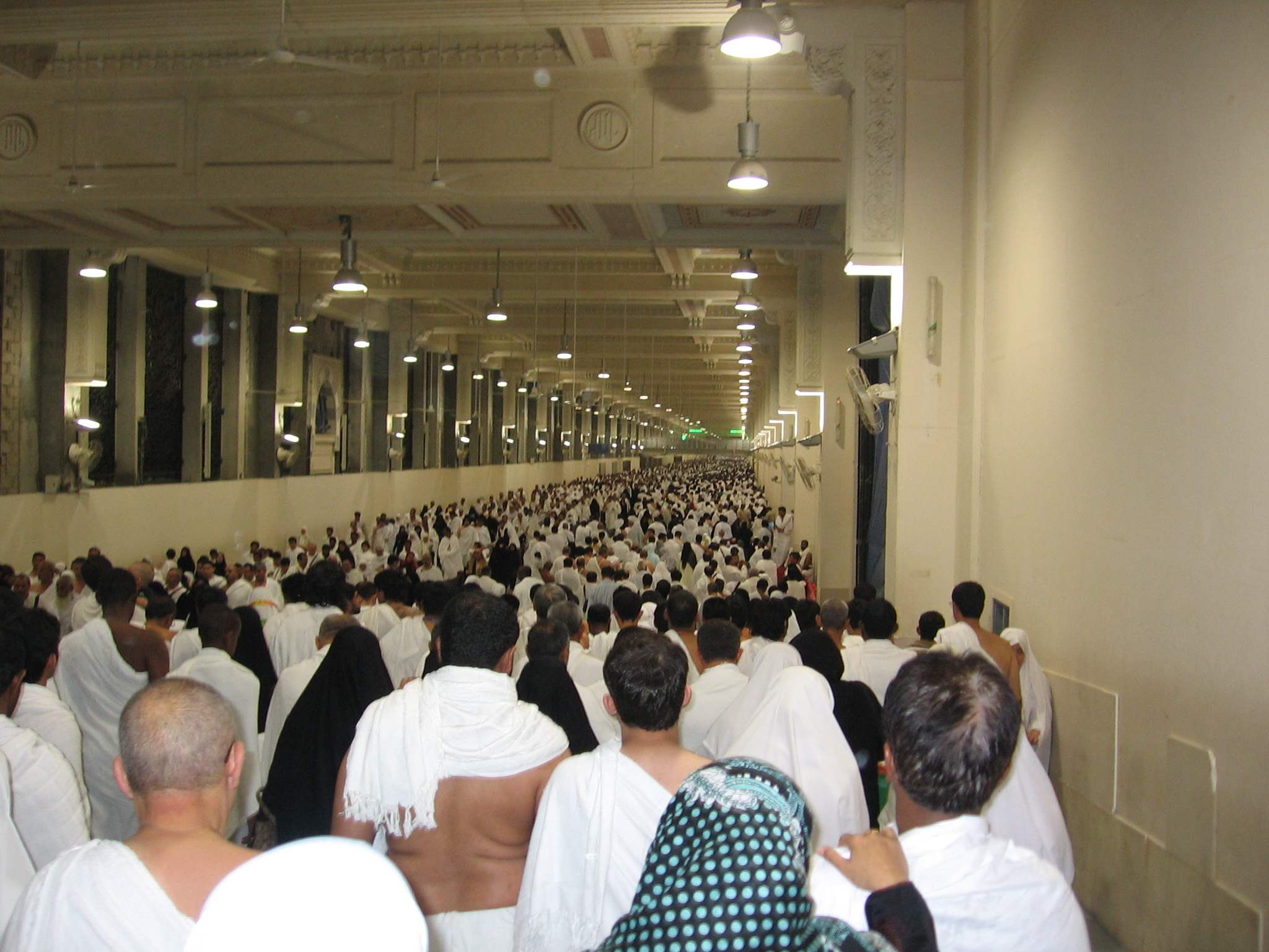 Masjid al-Haram in mecca Saudi Arabia